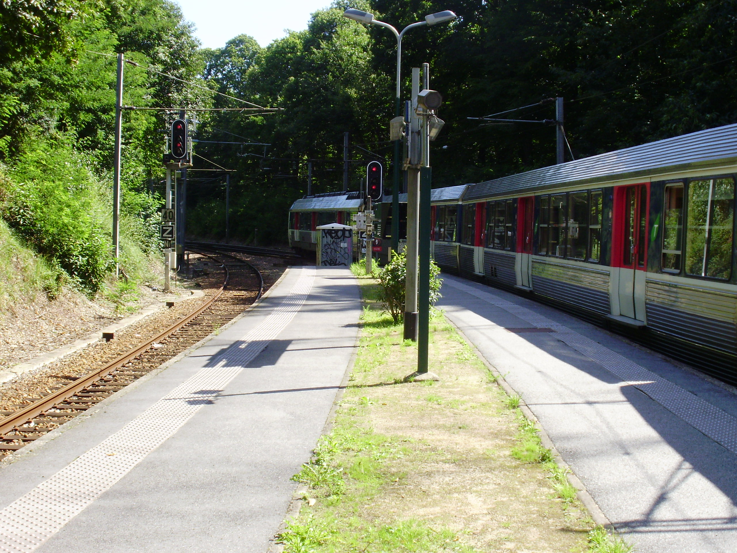 Saint-Nom-la-Bretèche - Forêt de Marly station, in L'Étang-la-Ville, Yvelines, France (view of the central platform of the line L by looking towards Paris-Saint-Lazare from where a train arrive on the right track)